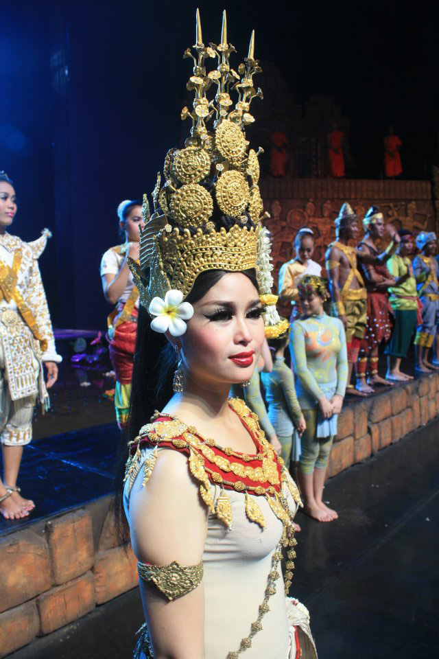 A beautiful leading dancer of Apsara dance, Smile of Angkor Theatre, Siem Reap, Cambodia.